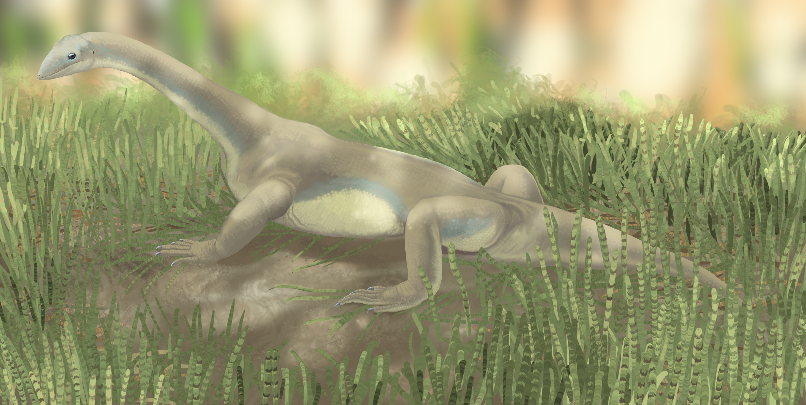 Life restoration of Pamelaria dolichotrachela. Based on figures in "Pamelaria dolichotrachela, a new prolacertid reptile from the Middle Triassic of India" by Kasturi Sen (Journal of Asian Earth Sciences 21(6): 663-681).